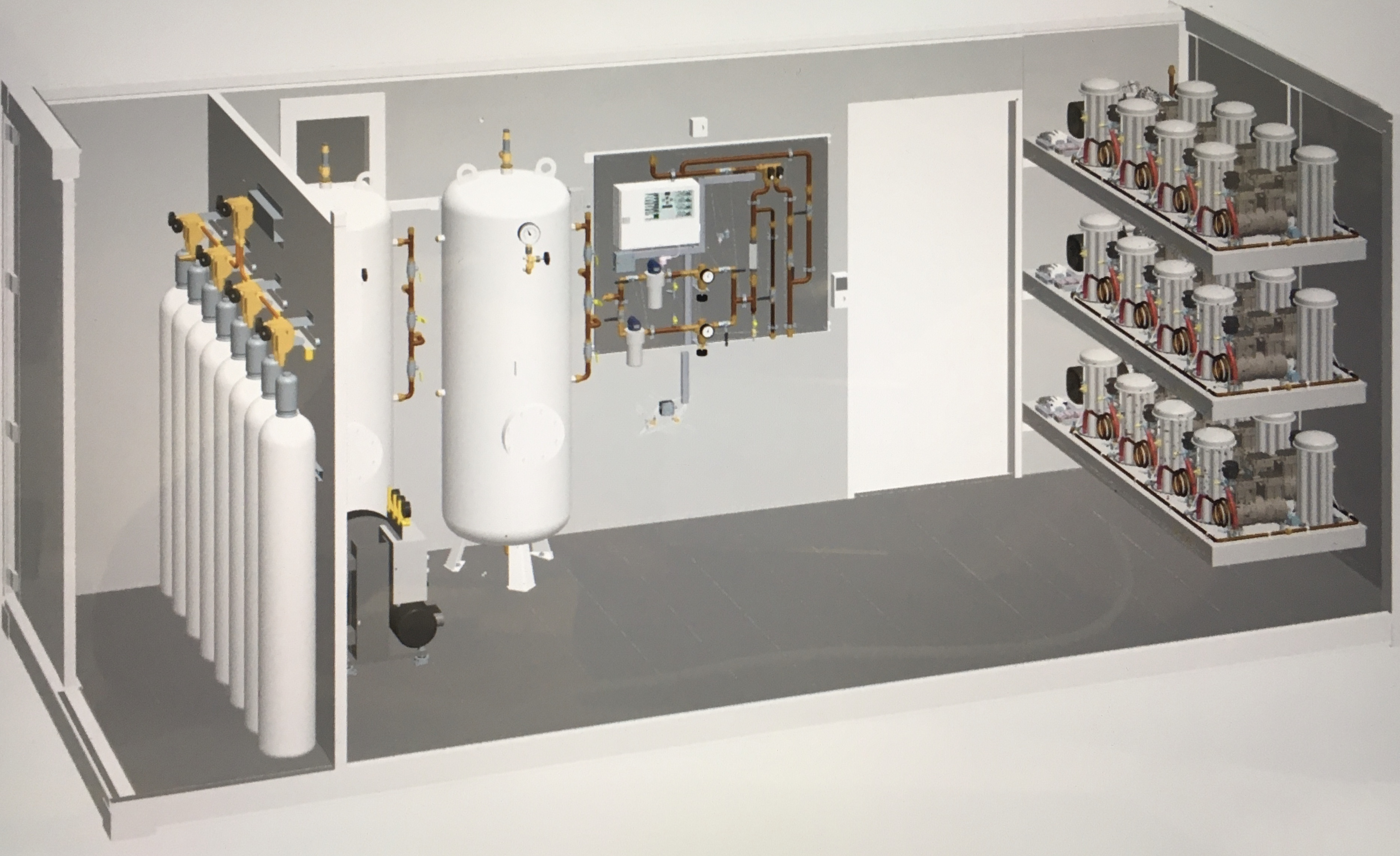 Fritz Stephan GmbH FS240 lpm stationary multi molecular sieve oxygen concentrator with buffer tanks, cylinder filling and reserve cylinders